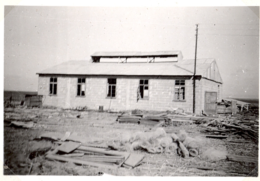 Settlements in Israel